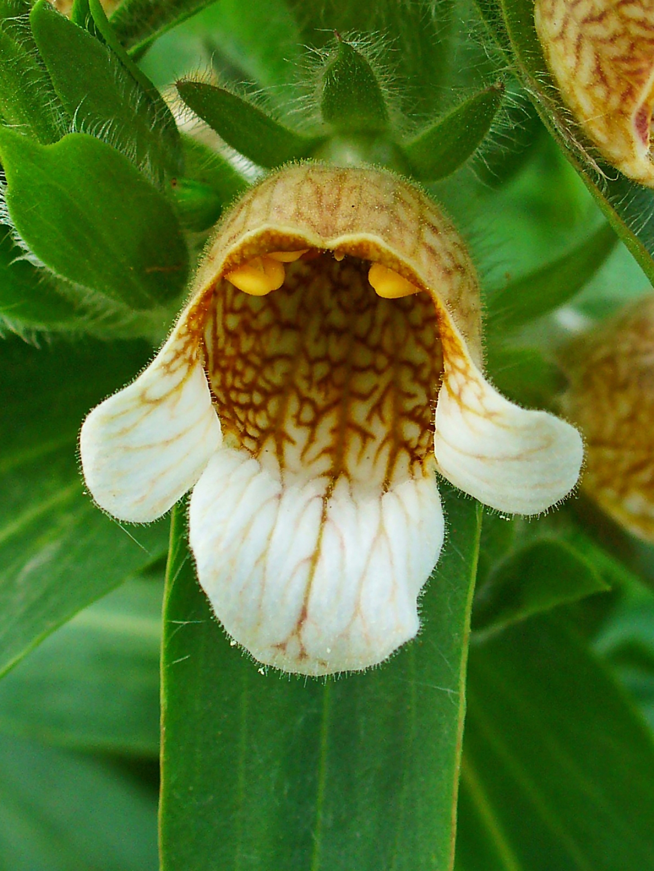 Digitalis lanata, Plantaginaceae, Woolly Foxglove, Grecian Foxglove, flower. The leaves are used in homeopathy as remedy: Digitalis lanata (Dig-l.)